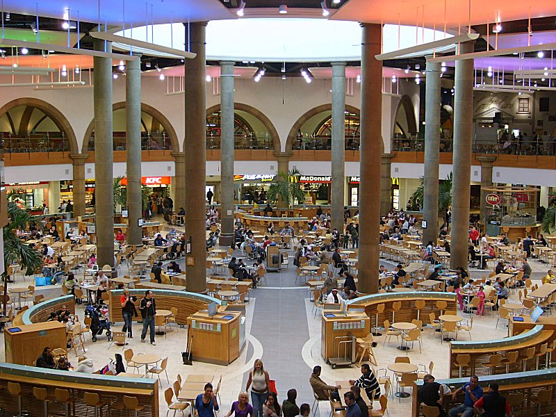 The Oasis in Meadowhall, Sheffield.